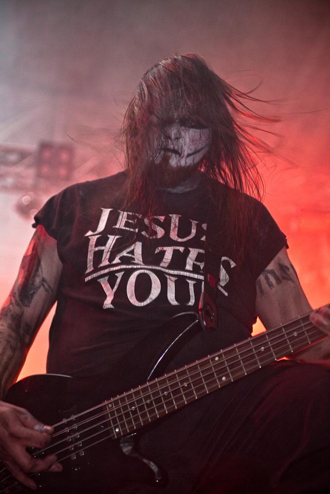 Bassist Svein-Ivar Sarassen of the norwegian Black-Metal-Band Ragnarok performing live at the Ragnarök Festival 2010 in the Ostbayernhalle in Rieden/Kreuth.